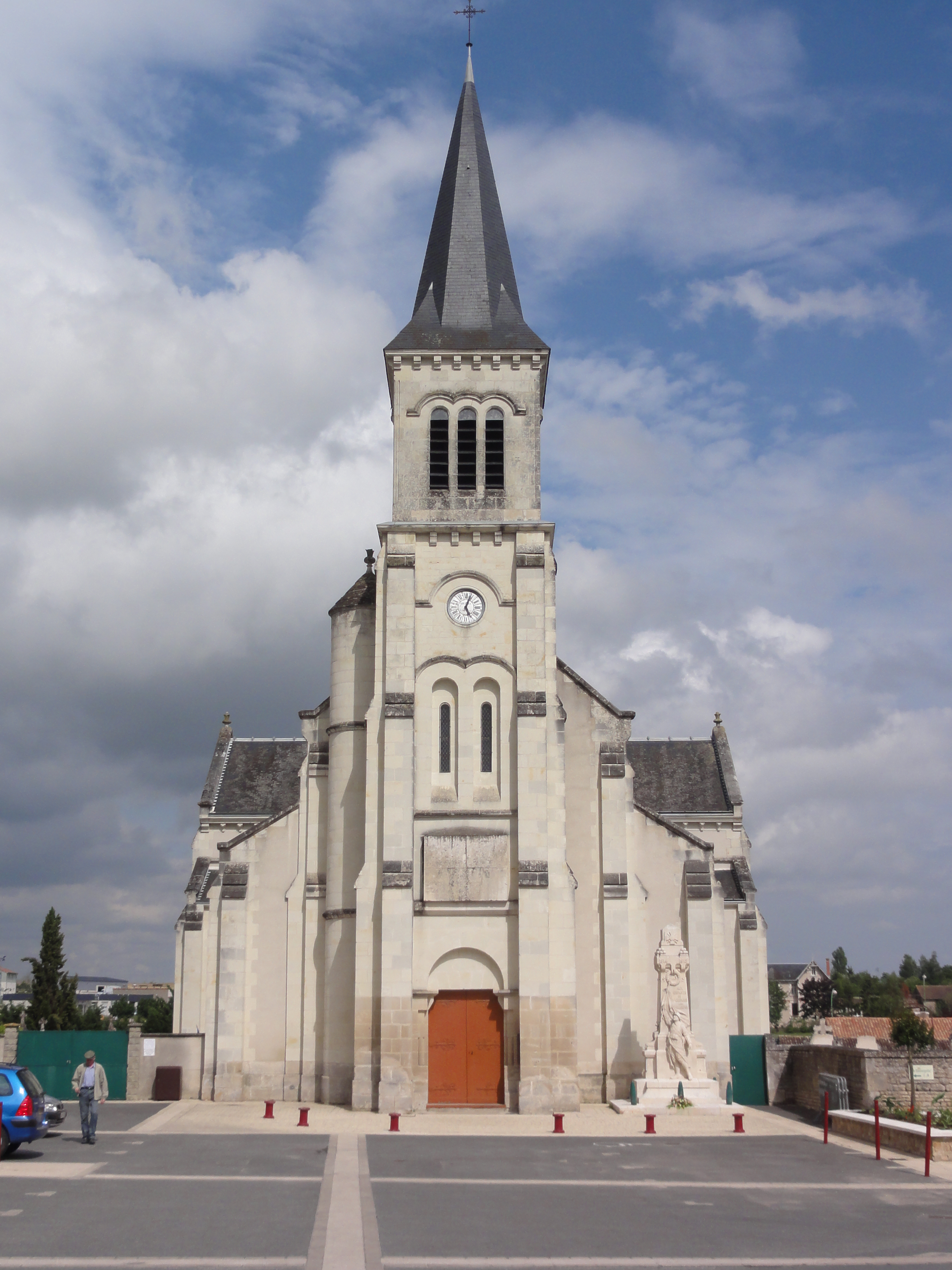 Saint-Georges-lès-Baillargeaux (vienne) église